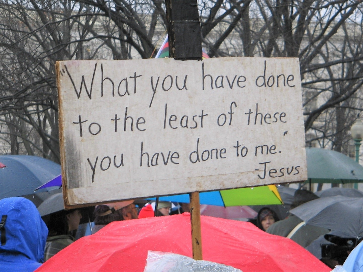 Christian groups protest the Iraq War. One holds a sign reading "What you have done to the least of these you have done to me - Jesus". Photo taken near the U.S. Capitol, by Vic Reinhart, March 7, 2008